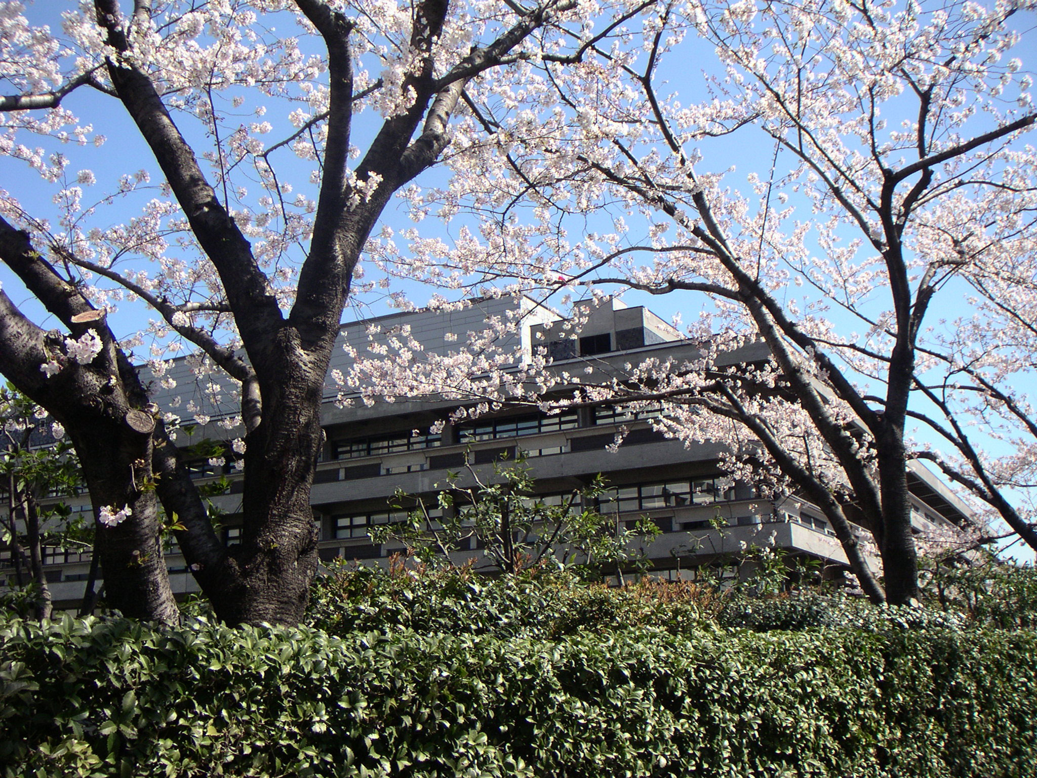 National Diet Library Japan ja: 国立国会図書館